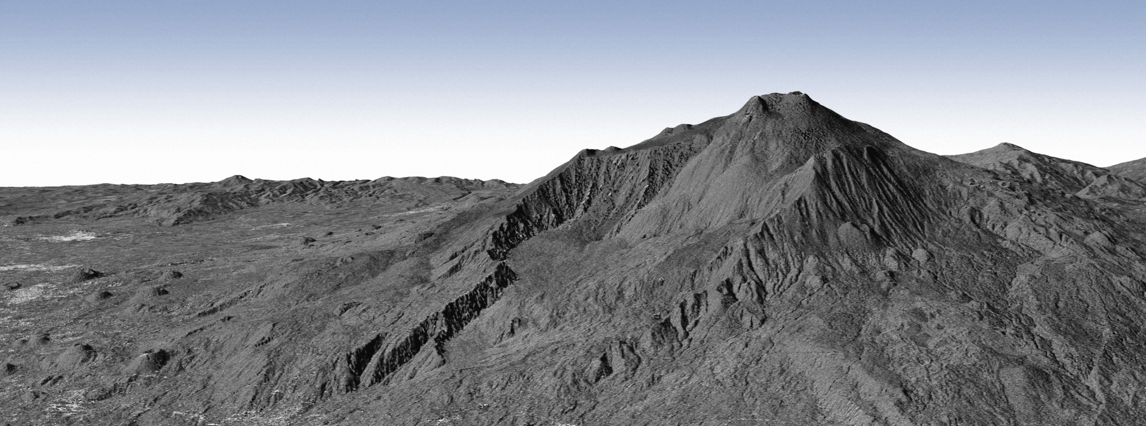 The first bistatic radar image acquired by the twin satellites TanDEM-X and TerraSAR-X shows the Italian volcano Mount Etna, on the east coast of Sicily. On the left of the image, below the flank of the volcano, the city of Catania can be seen as a collection of bright points. This image, acquired while the satellites were orbiting at a distance of only 350 metres from one another, is the world's first to be made using such a close satellite formation.